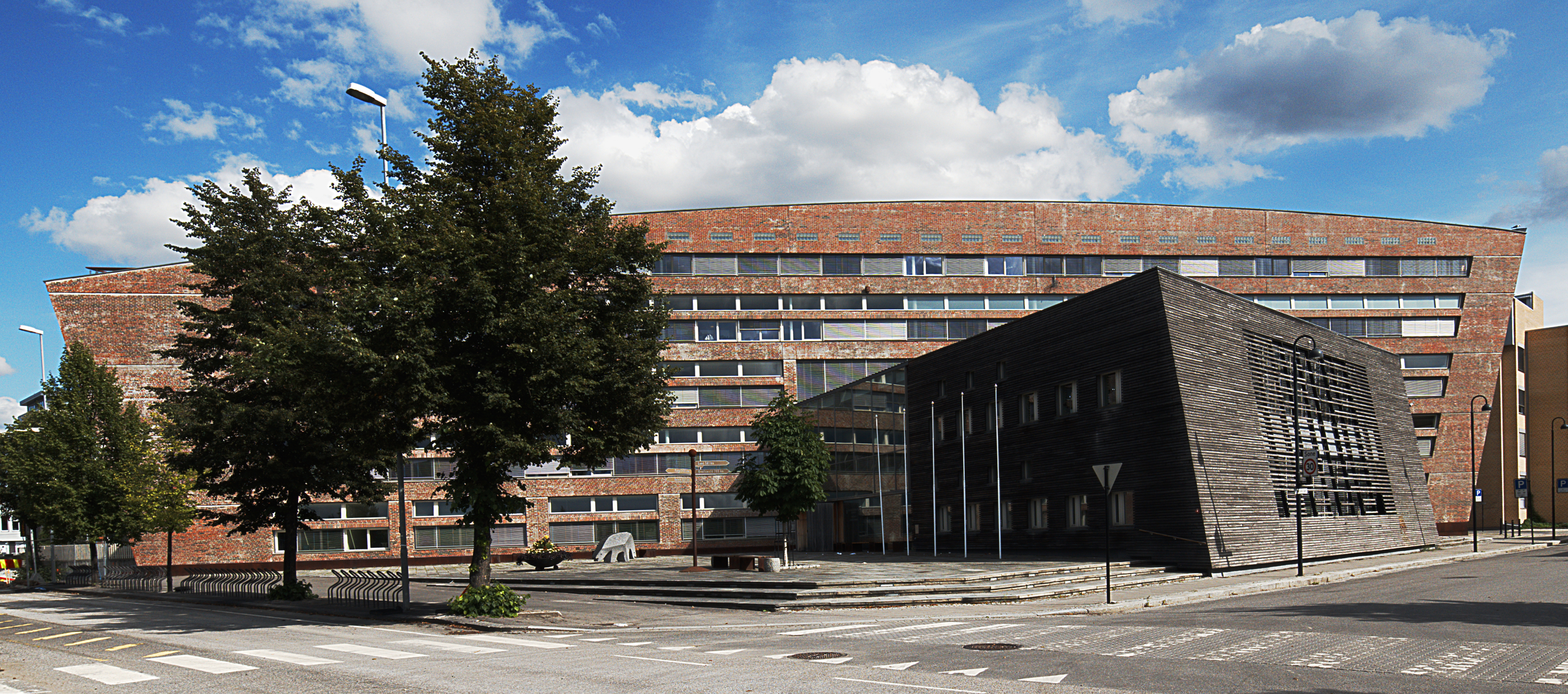 Hamar city hall / Hamar Seat of local government. Seen from west.